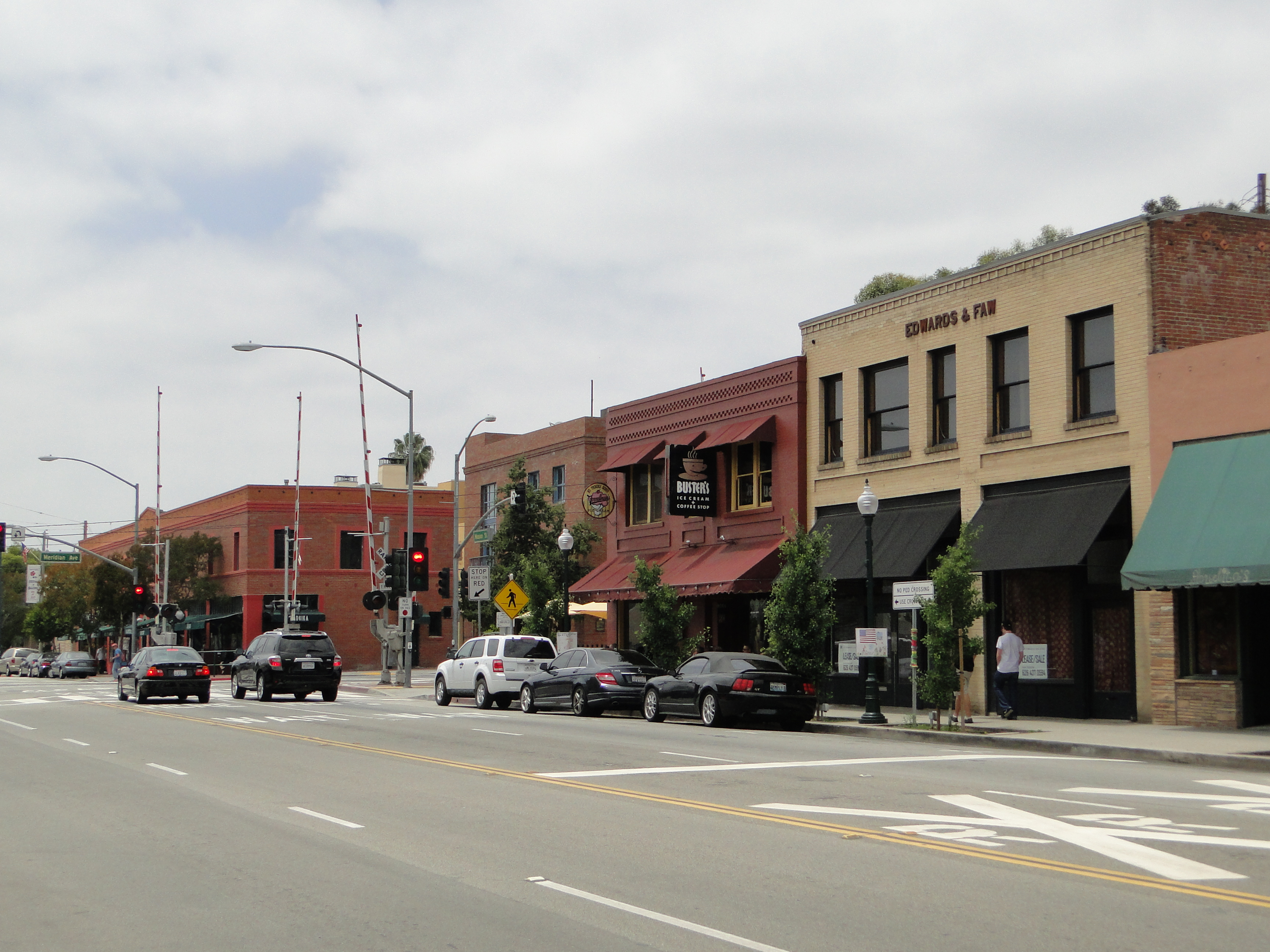 South Pasadena Historic District, North Side of Mission St. at Meridian Ave. — South Pasadena.